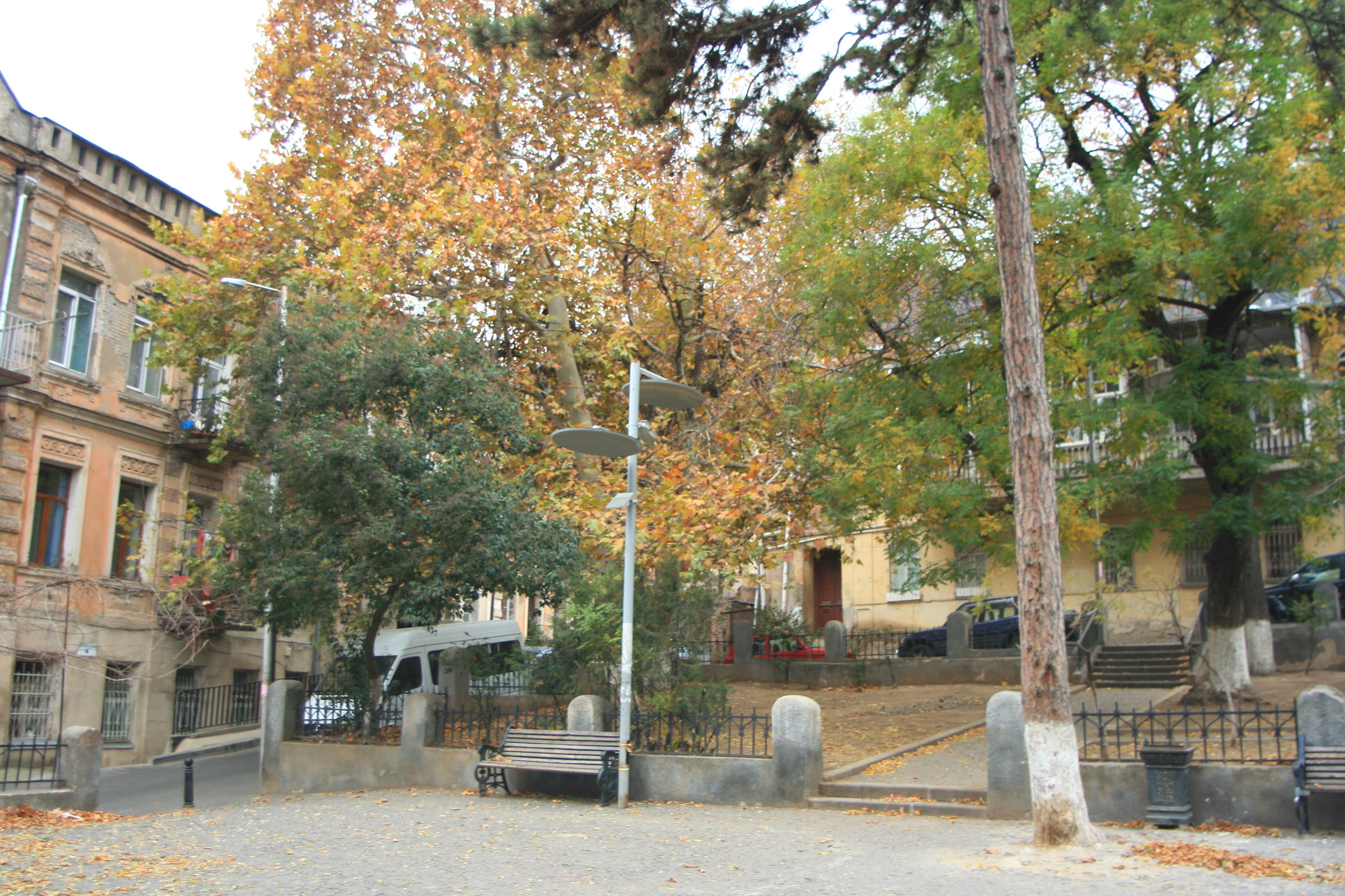 Sulkhan-saba Garden in Tbilisi